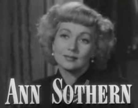 Cropped screenshot of Ann Sothern from the trailer for the film A Letter to Three Wives